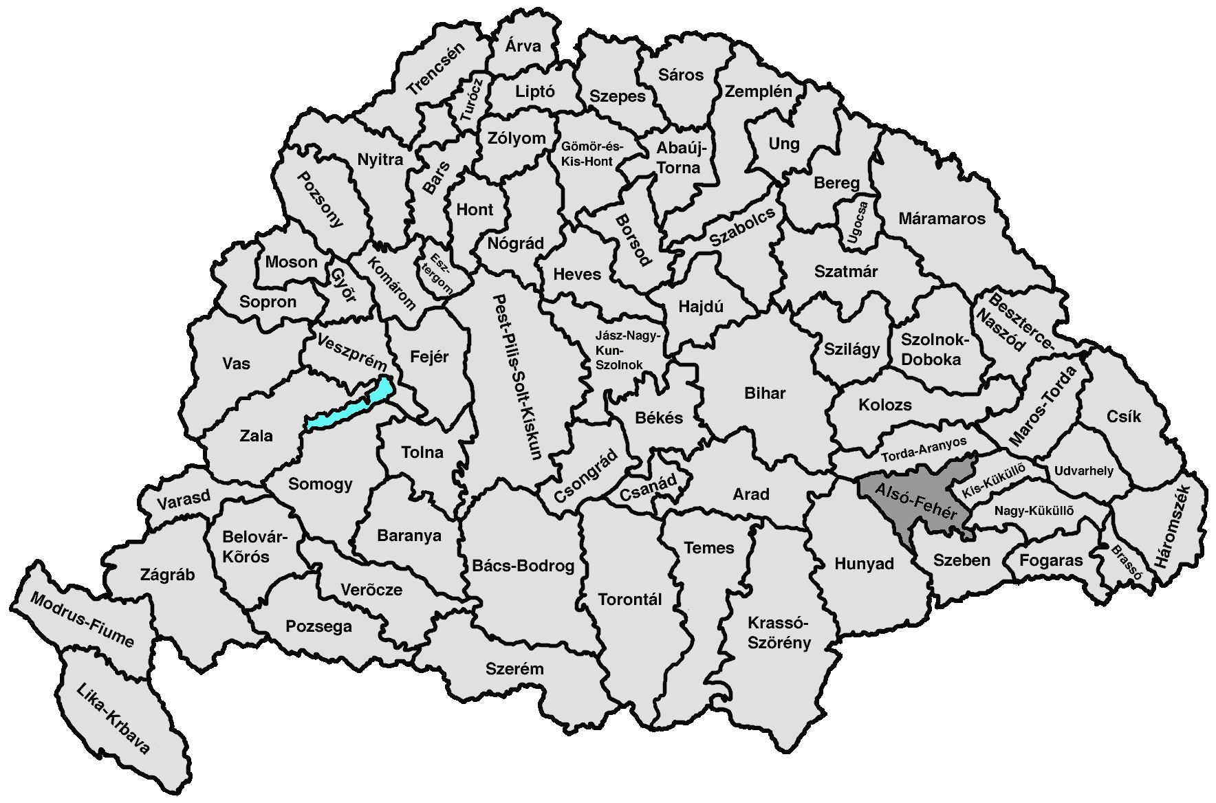 own edit of Image:Zala.png